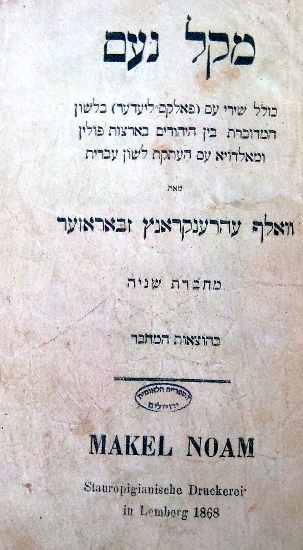 Title page of Velvl Zbarzher's book Makel Noam